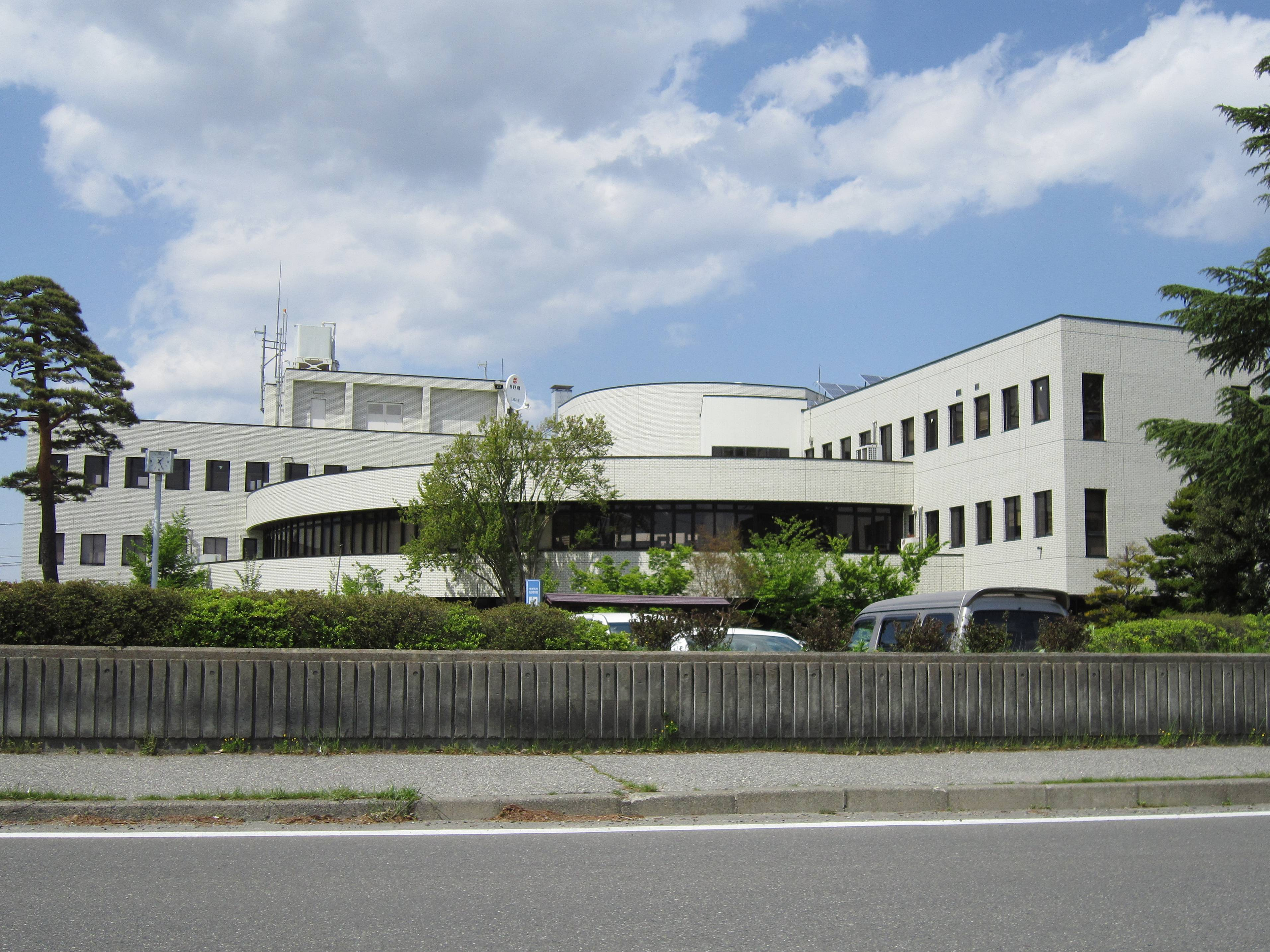 Azumino city Misato branch office.